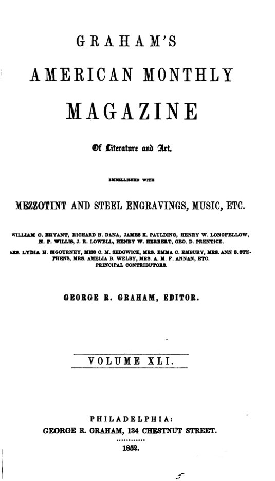 Title page of Philadelphia-based Graham's Magazine for June 1852.